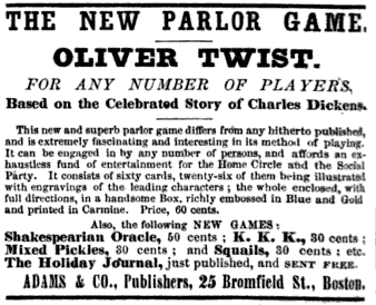 Advertisement for parlor game "Oliver Twist," issued by Adams & Co. of Boston. "For any number of players. Based on the celebrated story of Charles Dickens. ... It consists of 60 cards, 26 of them being illustrated with engravings of the leading characters ..."